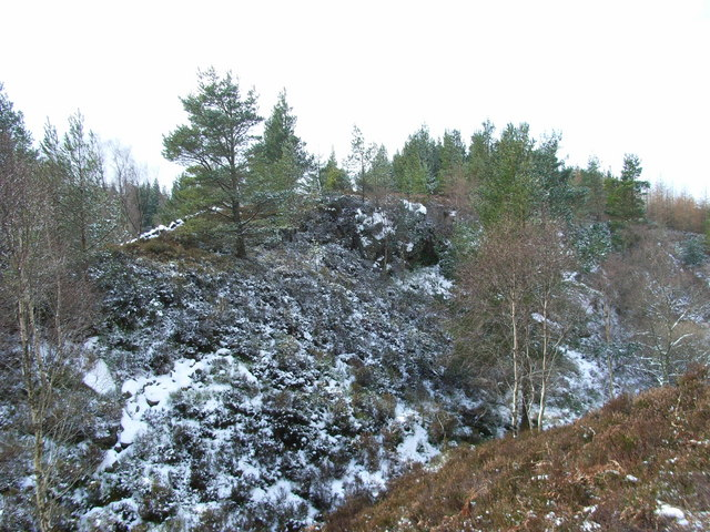 Queen's Chair This hollow in the craig is known as the "Queen's chair" from where, tradition (incorrectly) has it that Mary, Queen of Scots watched the battle of Corrichie in 1562. (This quite deep gorge running West about 200 metres from this point doesn't show on the 1:50 000 map, but is represented much more accurately on a 1:25 000.)